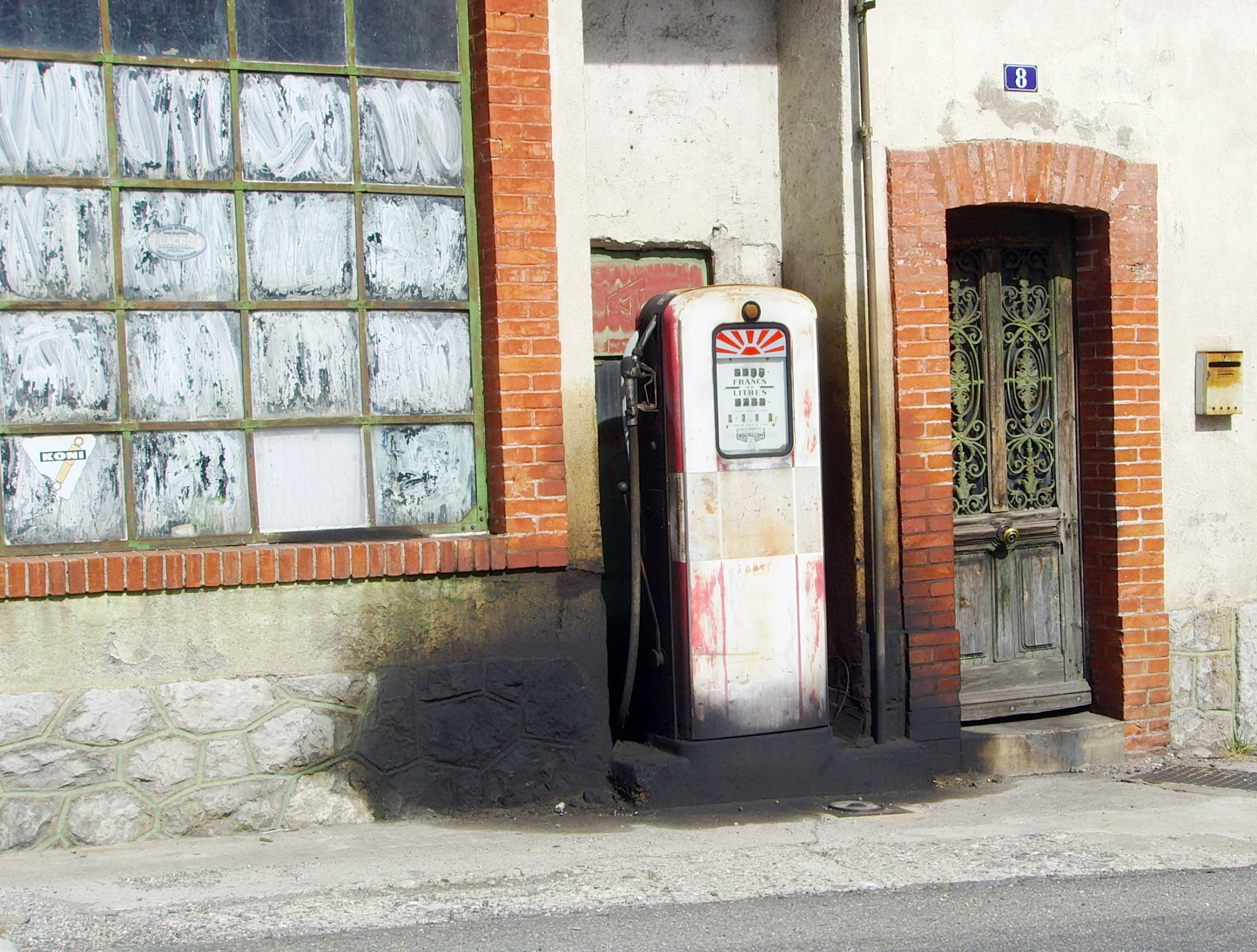 Ancient petrol pump, Quillan, France